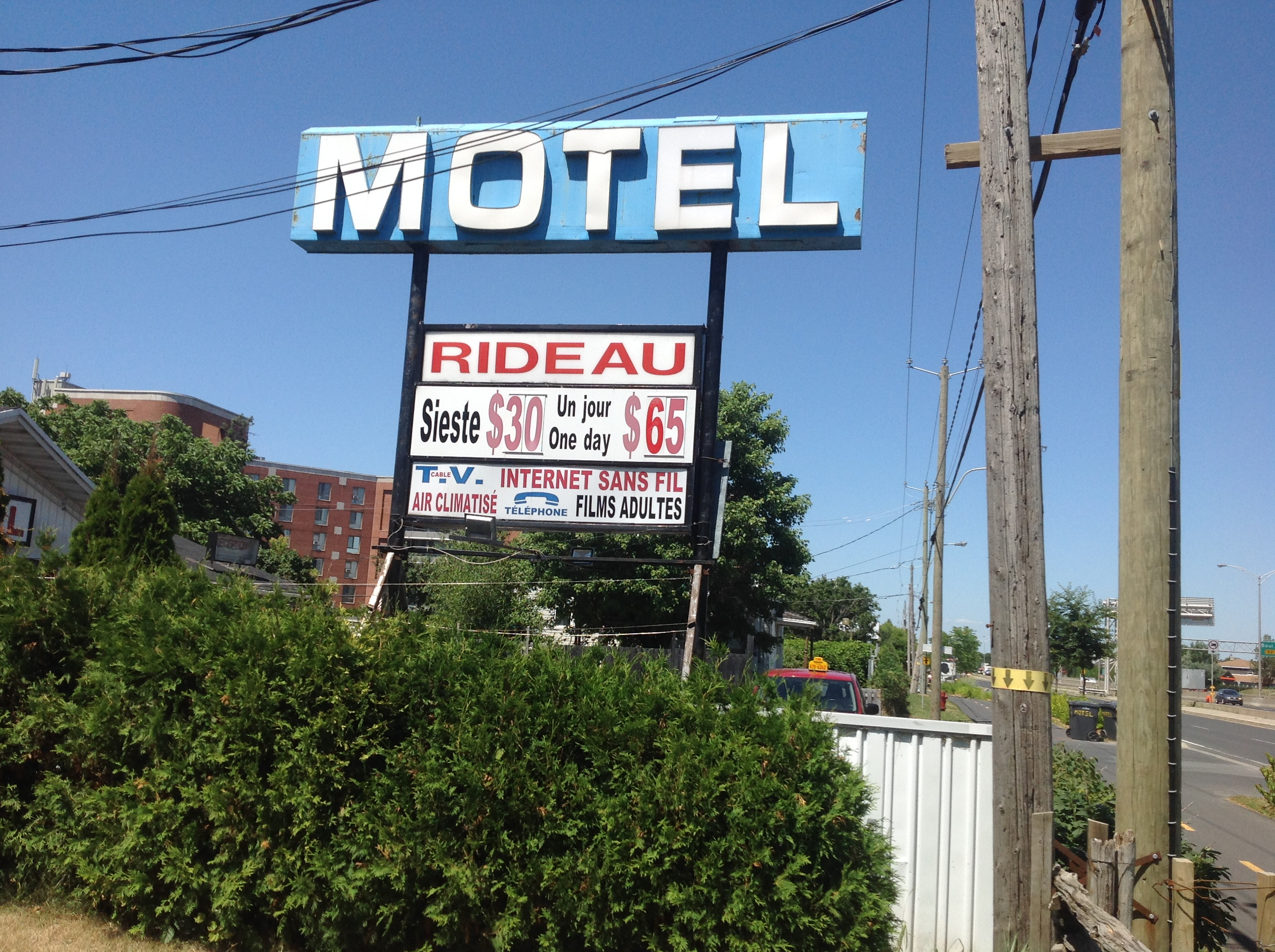 Sign at Motel Rideau, 8700 boulevard Marie-Victorin, Brossard, Quebec, advertising "siesta" and overnight rates.